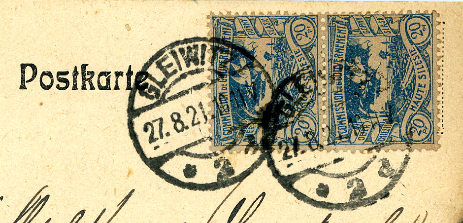 Stamps of Upper Silesia, pair of 20 Pfg on a Postcard, cancelled at GLEIWITZ on 27 August 1921.